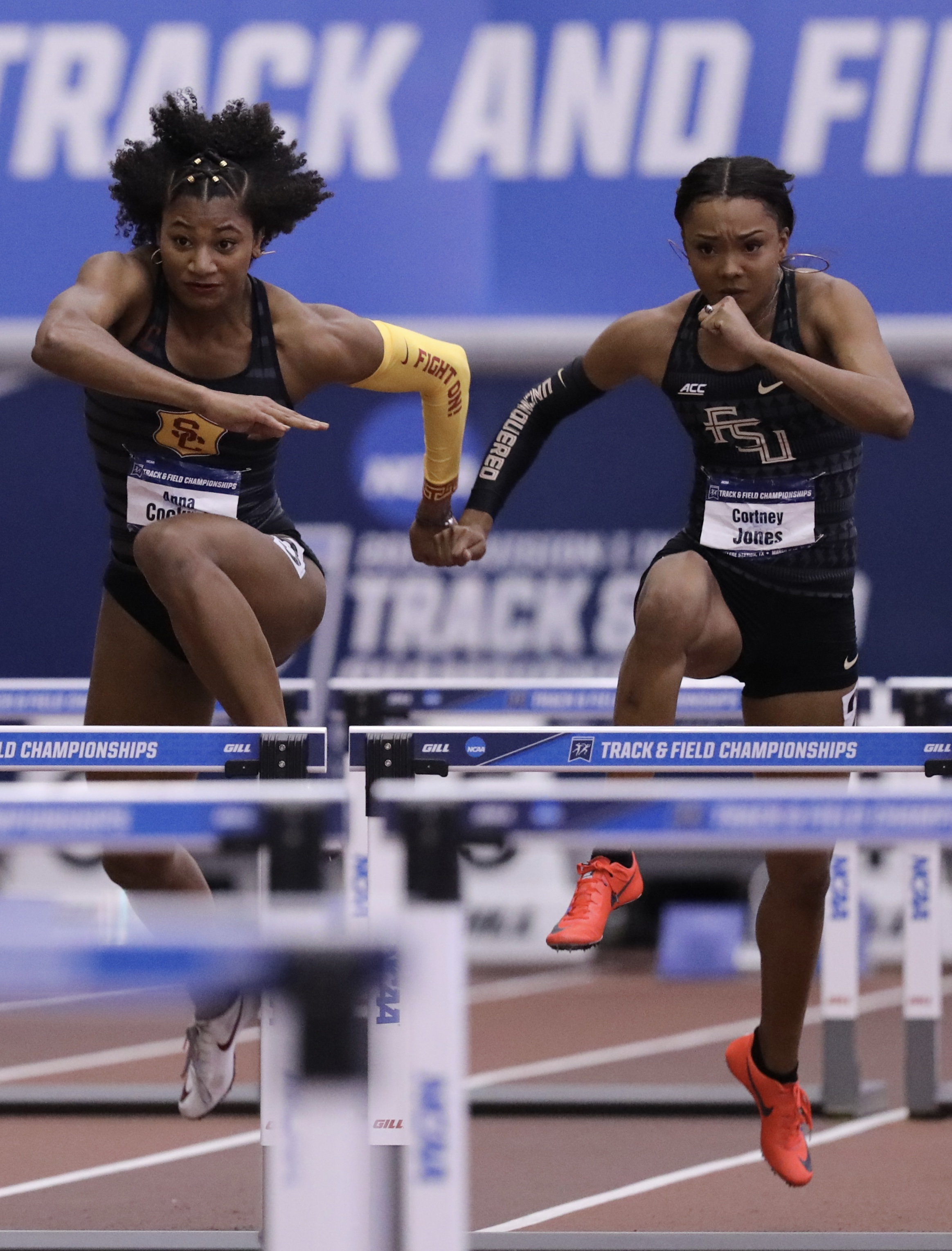 Anna Cockrell by Jenaragon94 - 2018 at the Track and Field champs in 2018